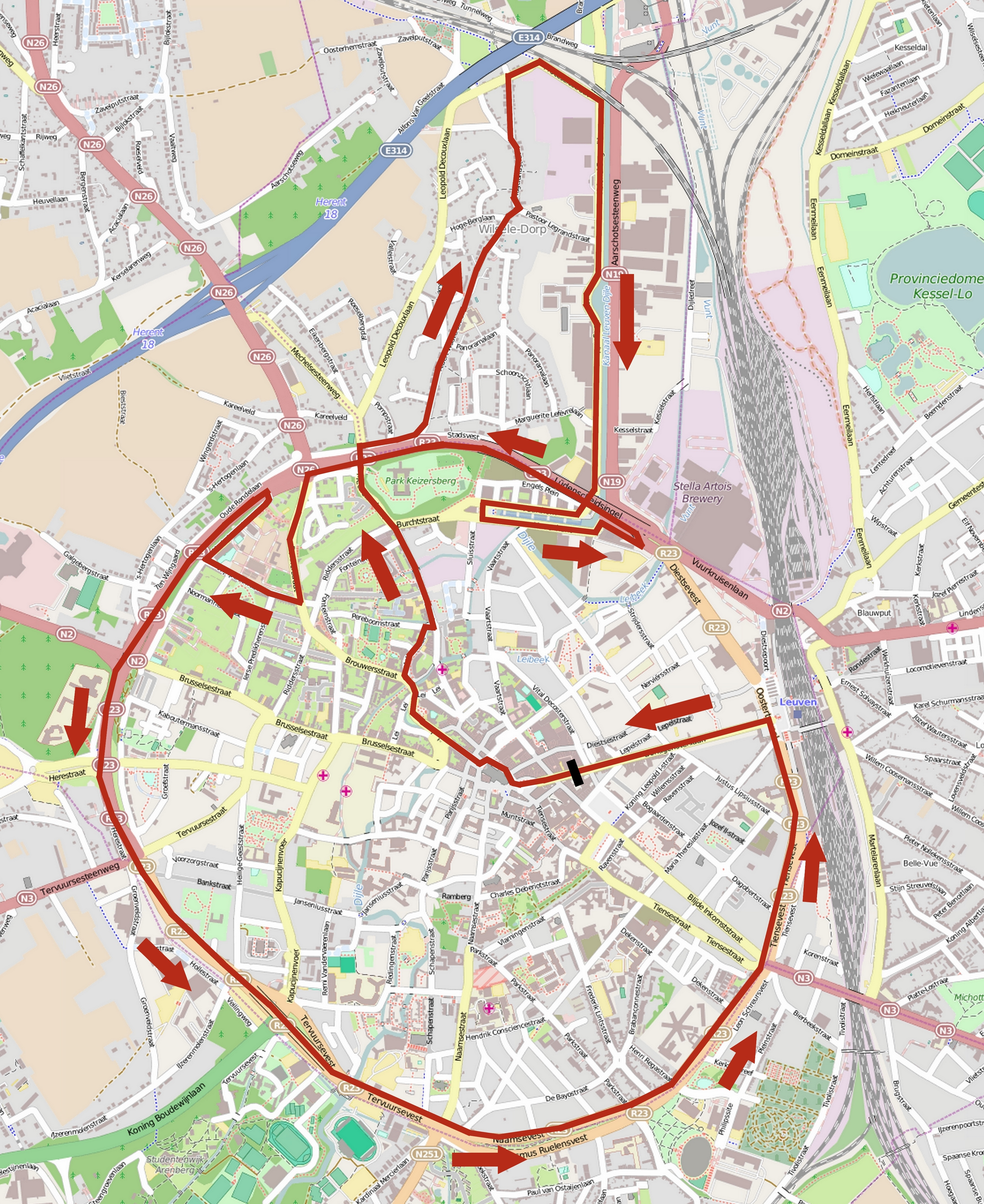 This map may be incomplete, and may contain errors. Don't rely solely on it for navigation.